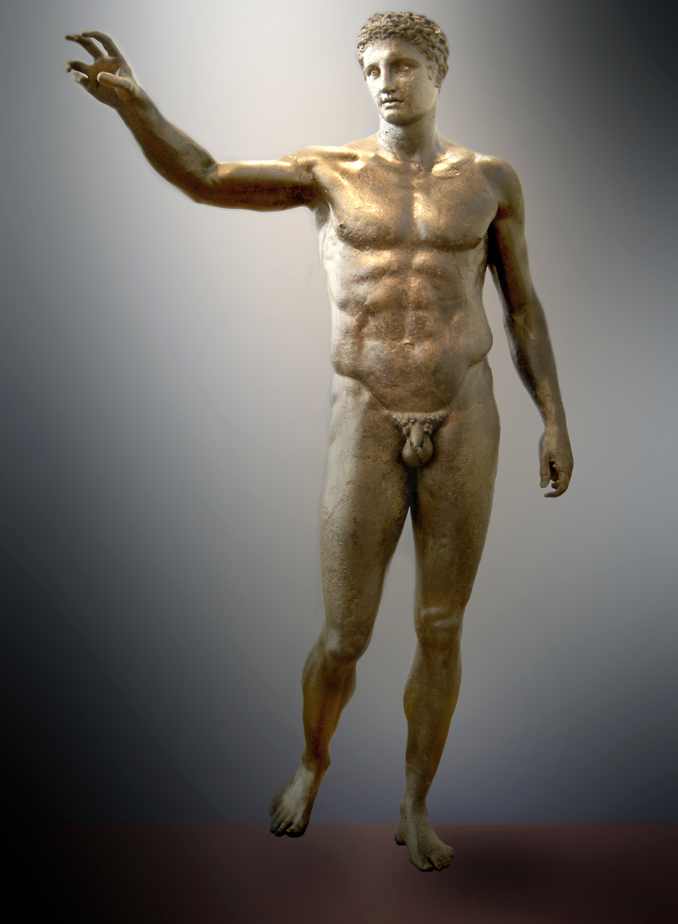 Paris or Perseus, National Archaeological Museum, Athens